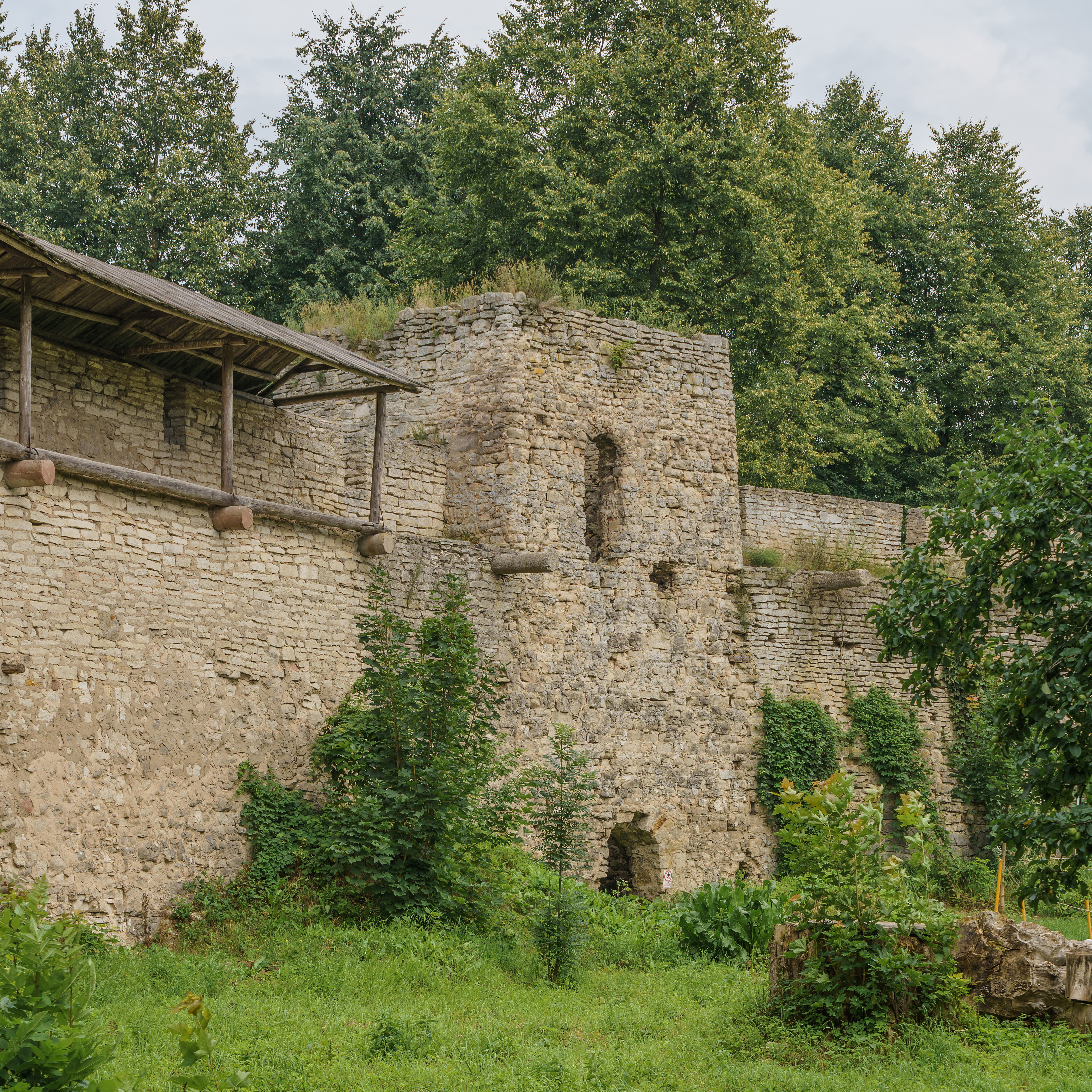 Malaya Tower – Fortress in Porkhov, Pskov Oblast, Russia.